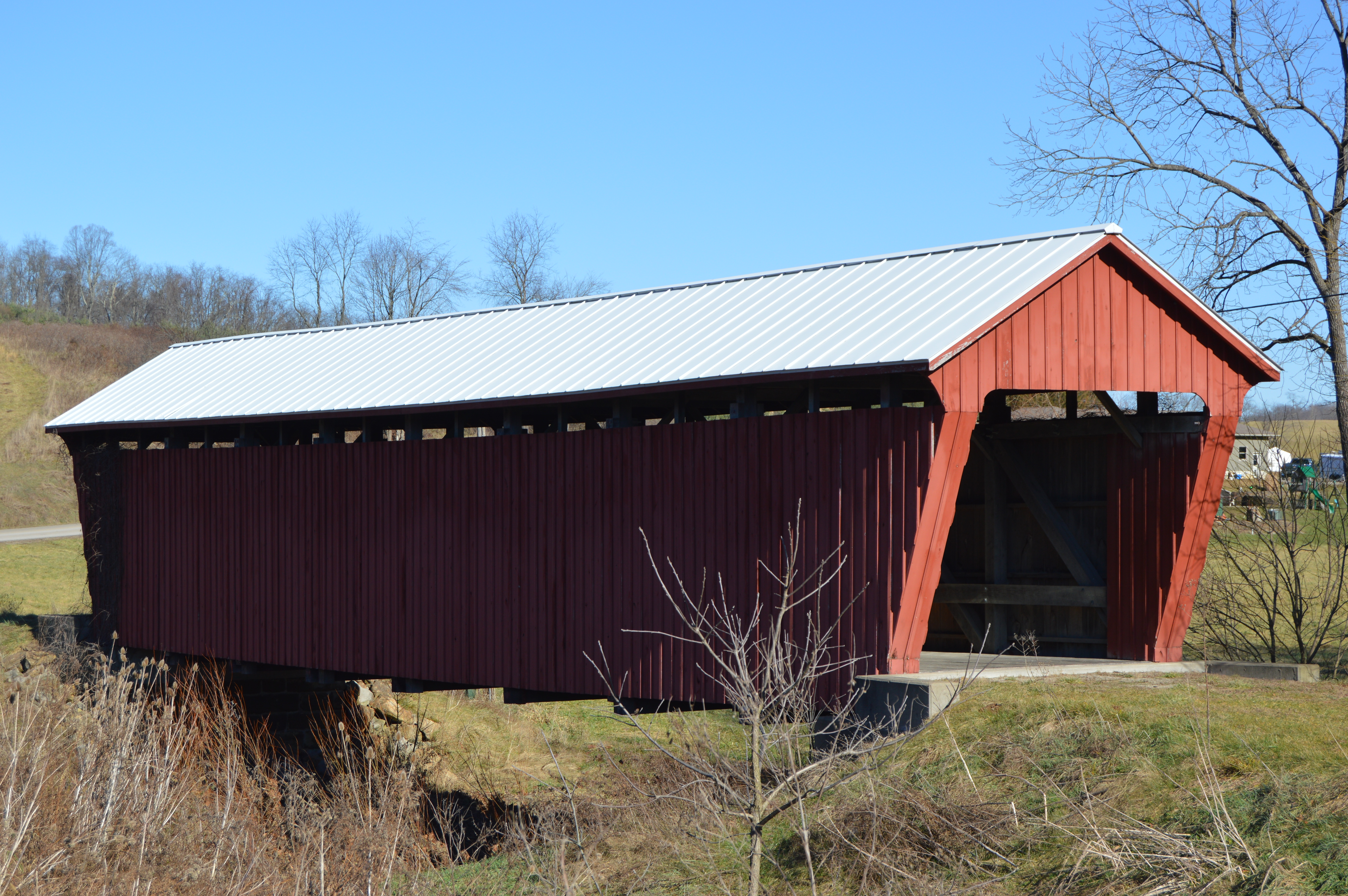 Southern portal and western side of the Parrish Covered Bridge, which spans the Sharon Fork along Rich Valley Road in Sharon Township, Noble County, Ohio, United States. It was built in 1914.